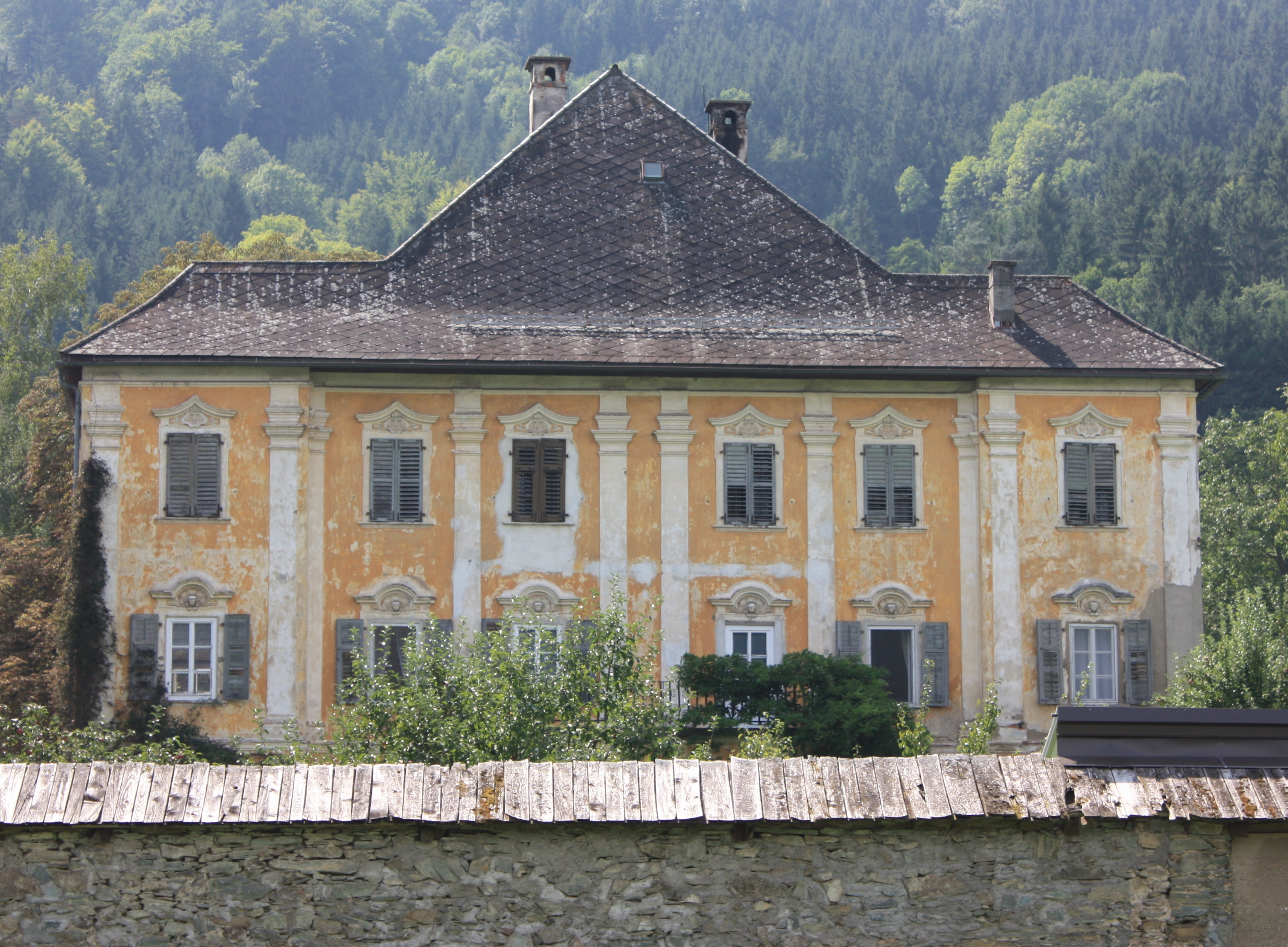 Eberwein castle Locality: Leifling Community:Neuhaus